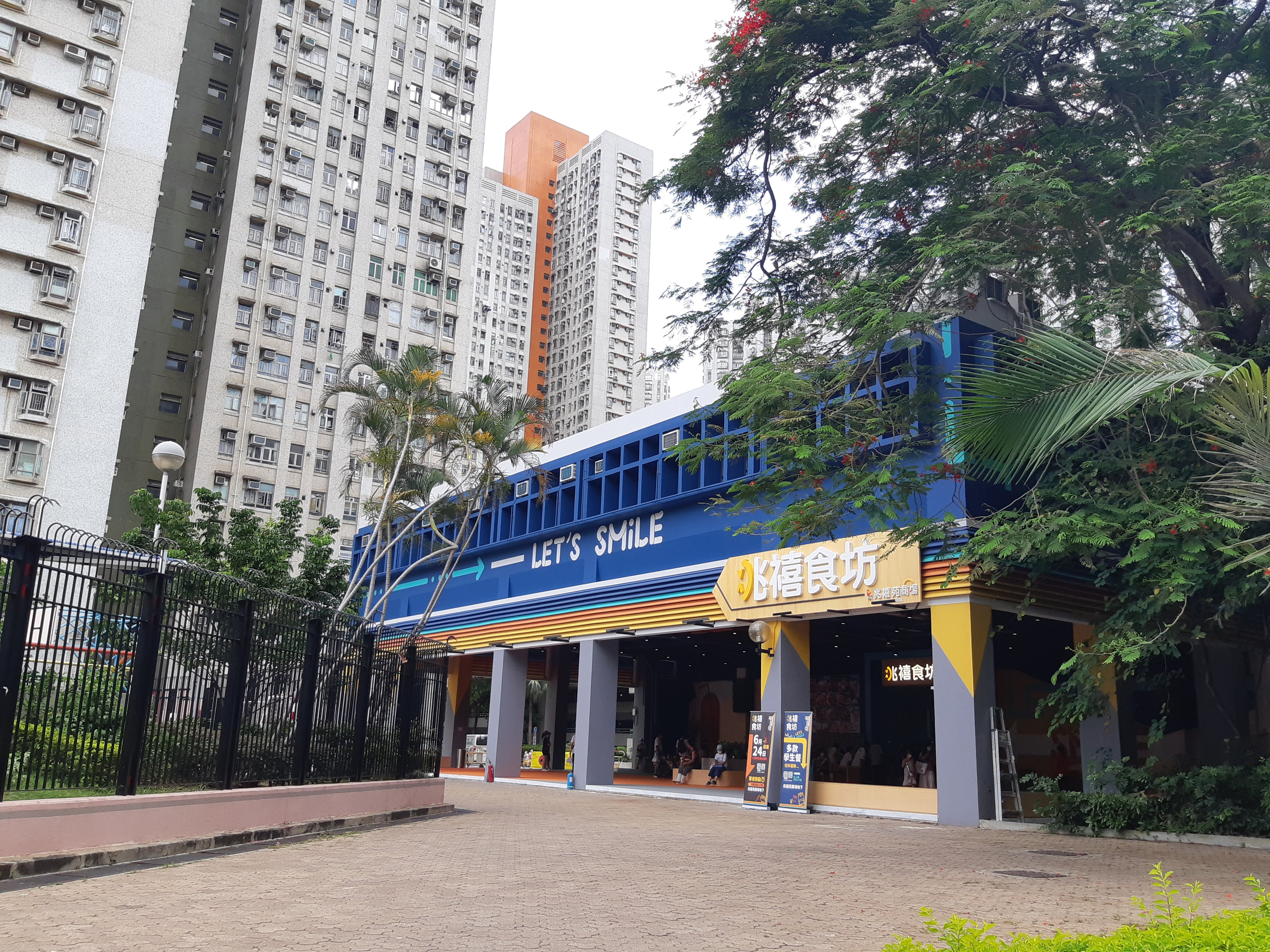 Siu Hei Shopping Centre after renovation.